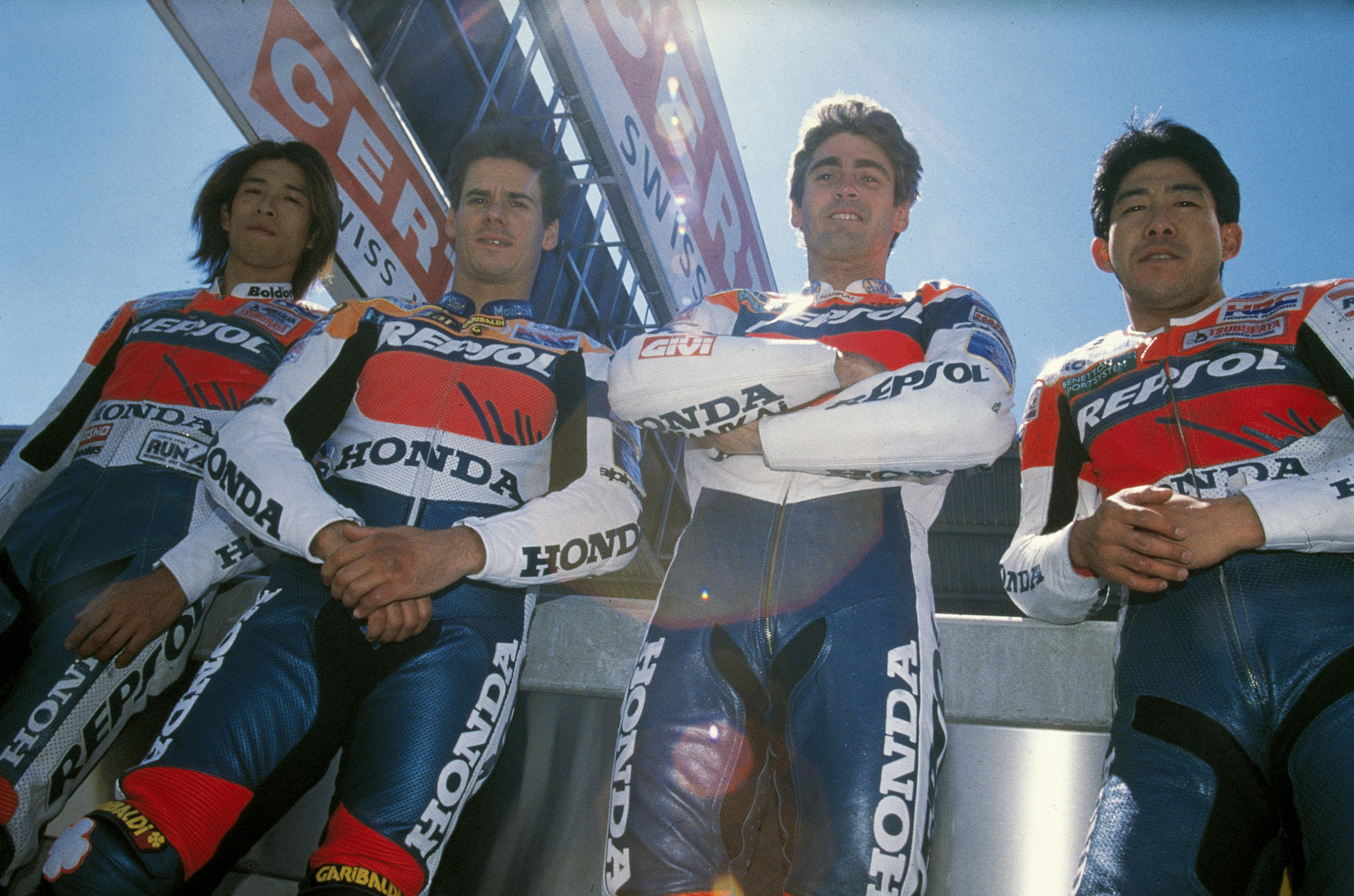 Takuma Aoki, Àlex Crivillé, Mick Doohan and Tadayuki Okada in the 1997 season. Date and circuit unknown.